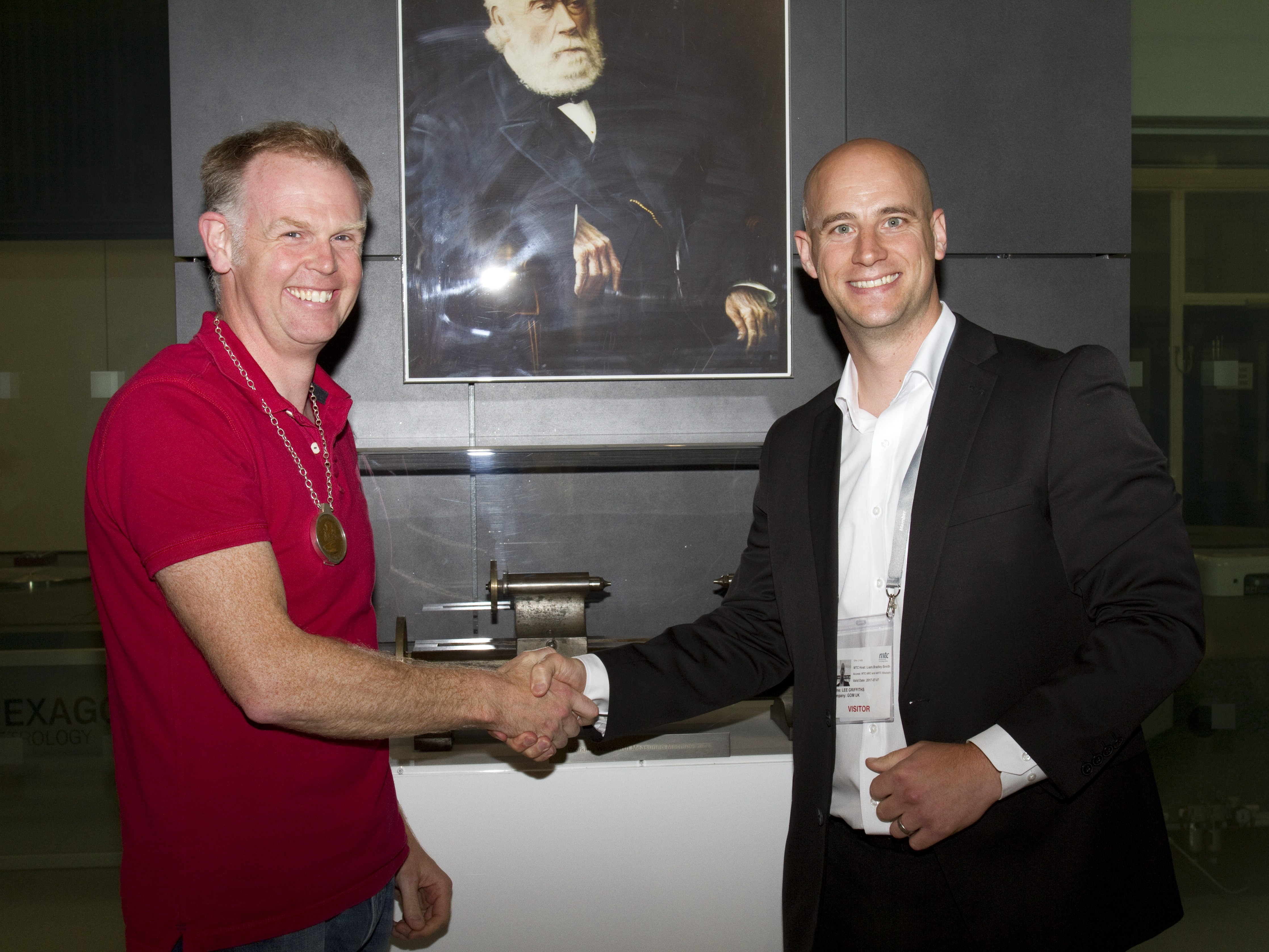 Image showing handover of Presidential chain, medal and duties between Lee Griffiths (2016 President, right) to Dr. Howard Stone (2017 President, left) at The Manufacturing Technology Centre in July 2017.